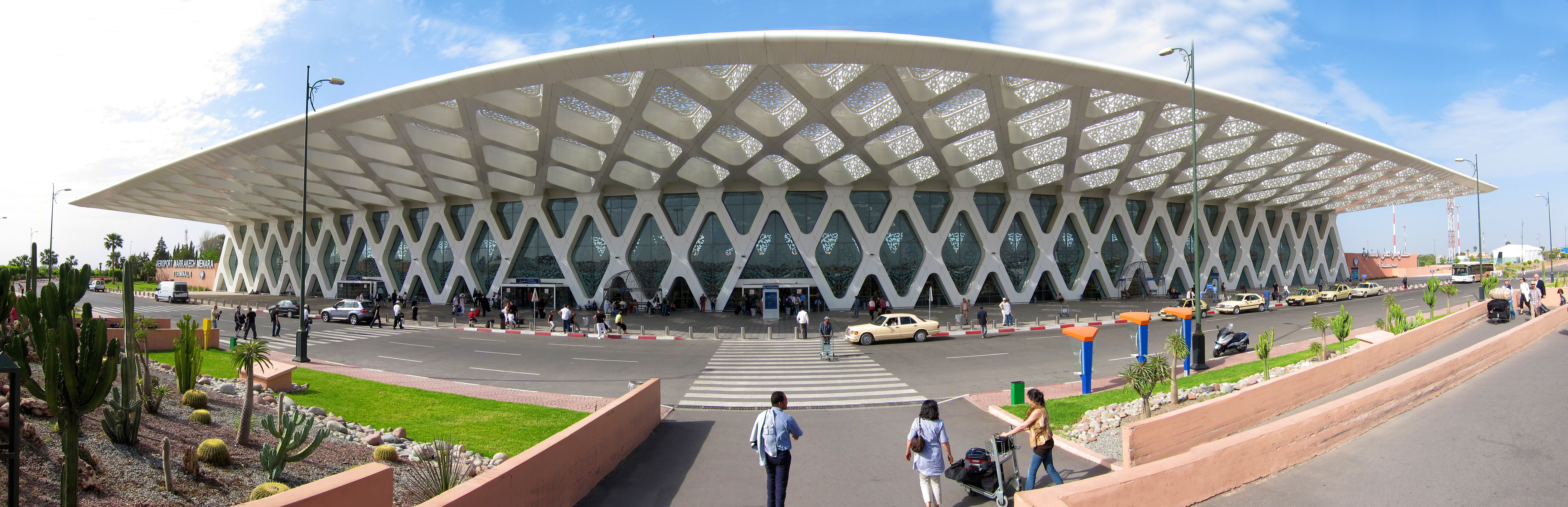 Marrakech Menara Airport